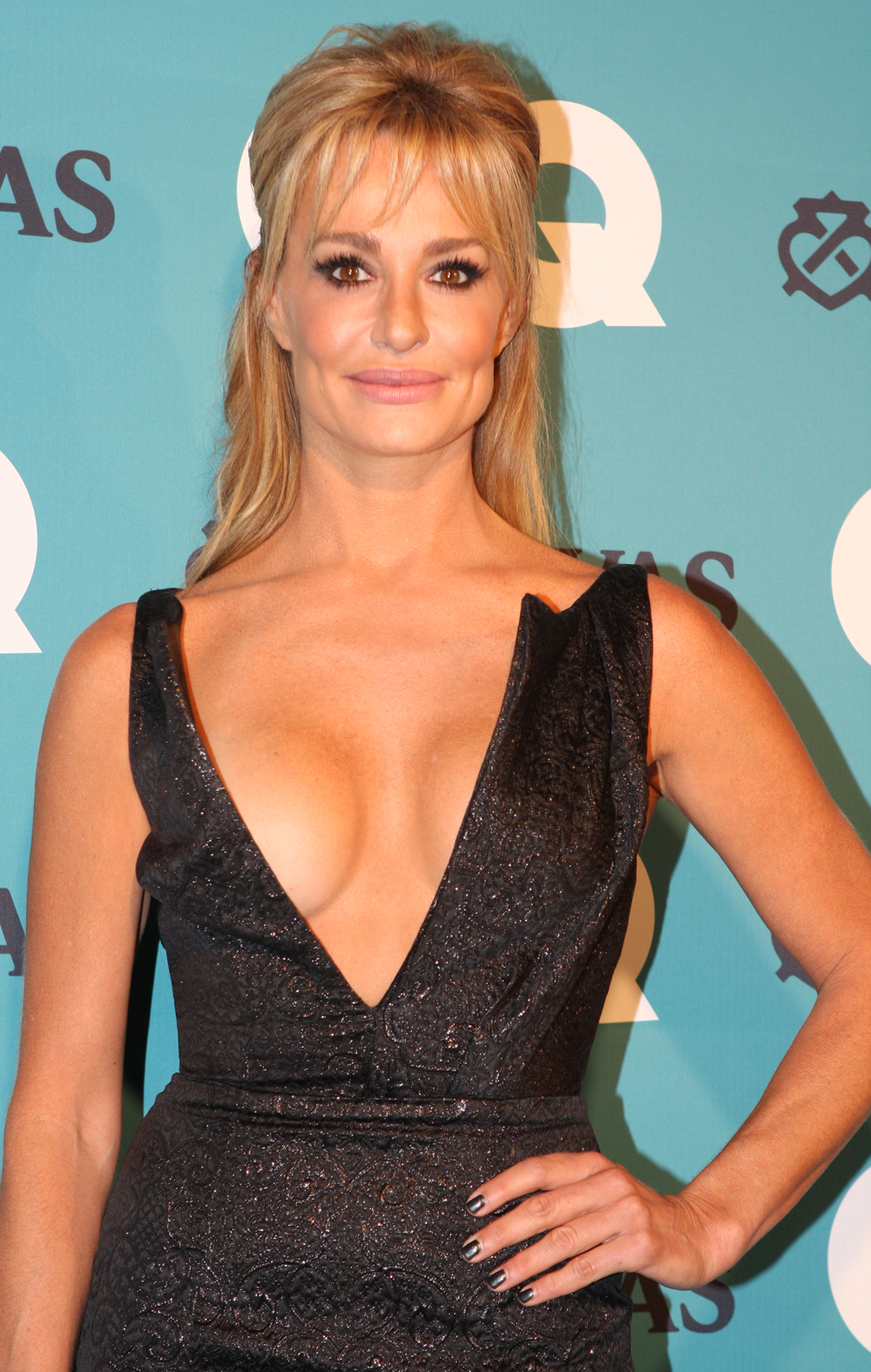 GQ Men of the Year Awards 2012 on November 13